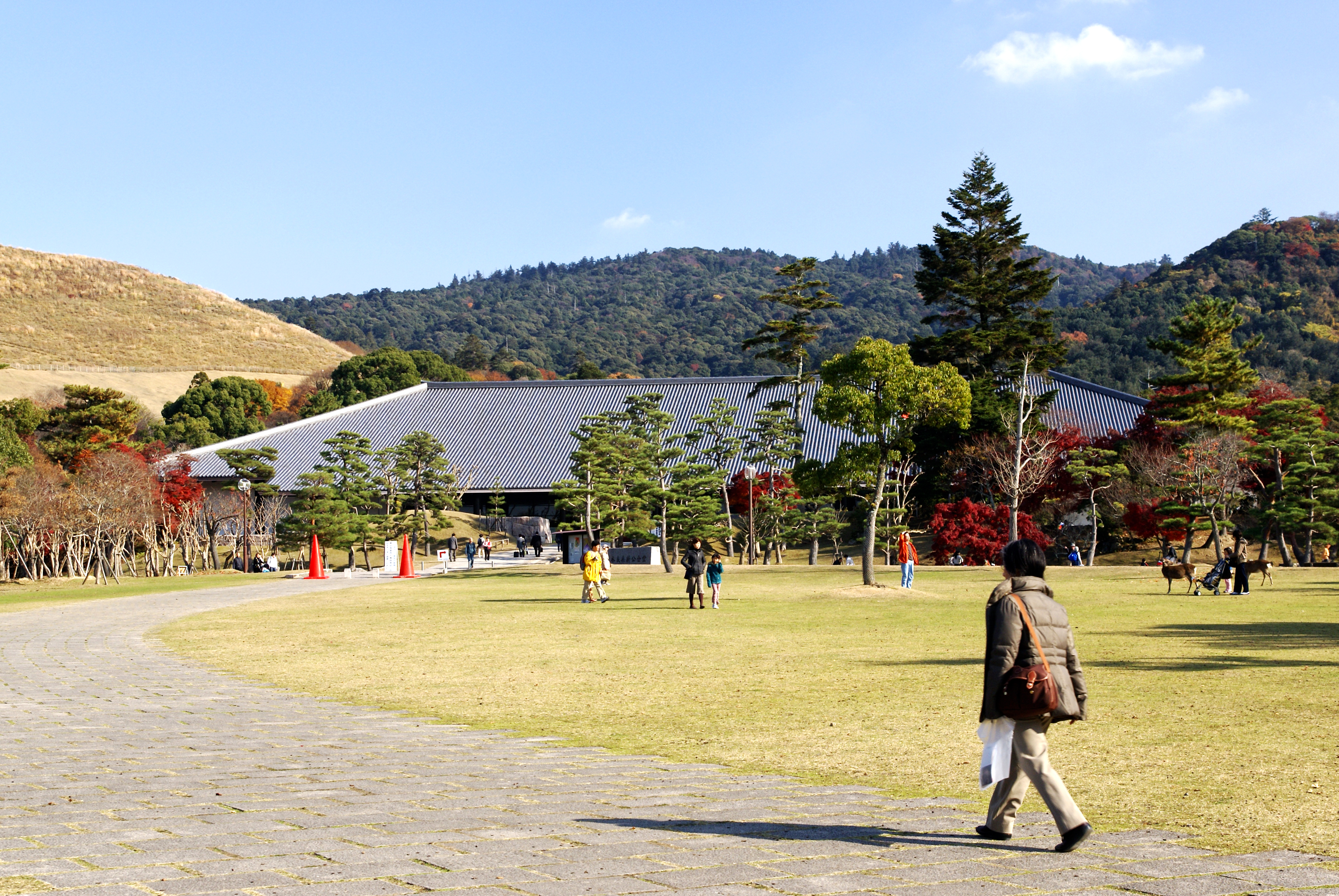 Nara Prefectural New Public Hall in Nara, Nara prefecture, Japan